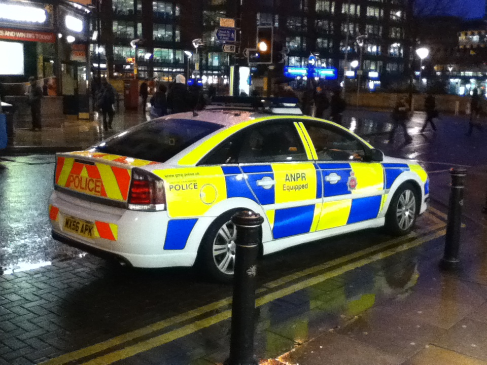 Seen on Oldham Street, Manchester, England, on Friday 7th January 2011